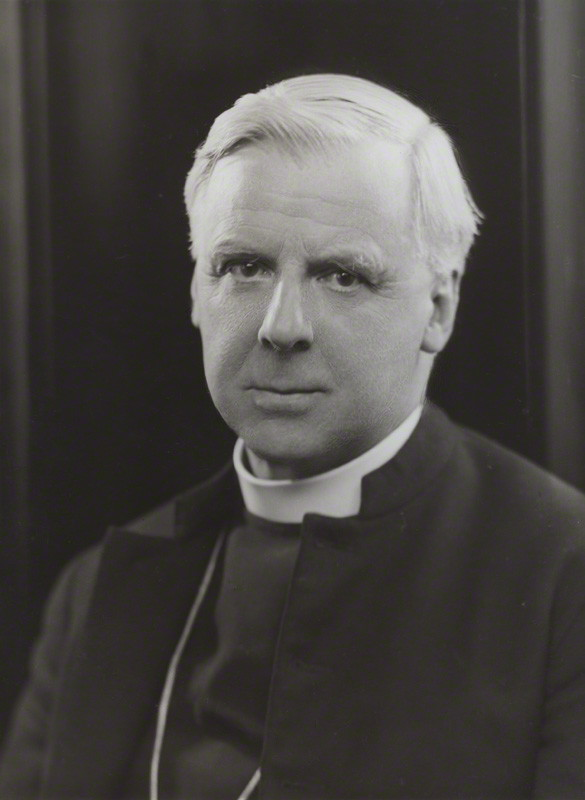 1935 bromide photographic print of Bernard Heywood(1871-1960), Bishop of Southwell.